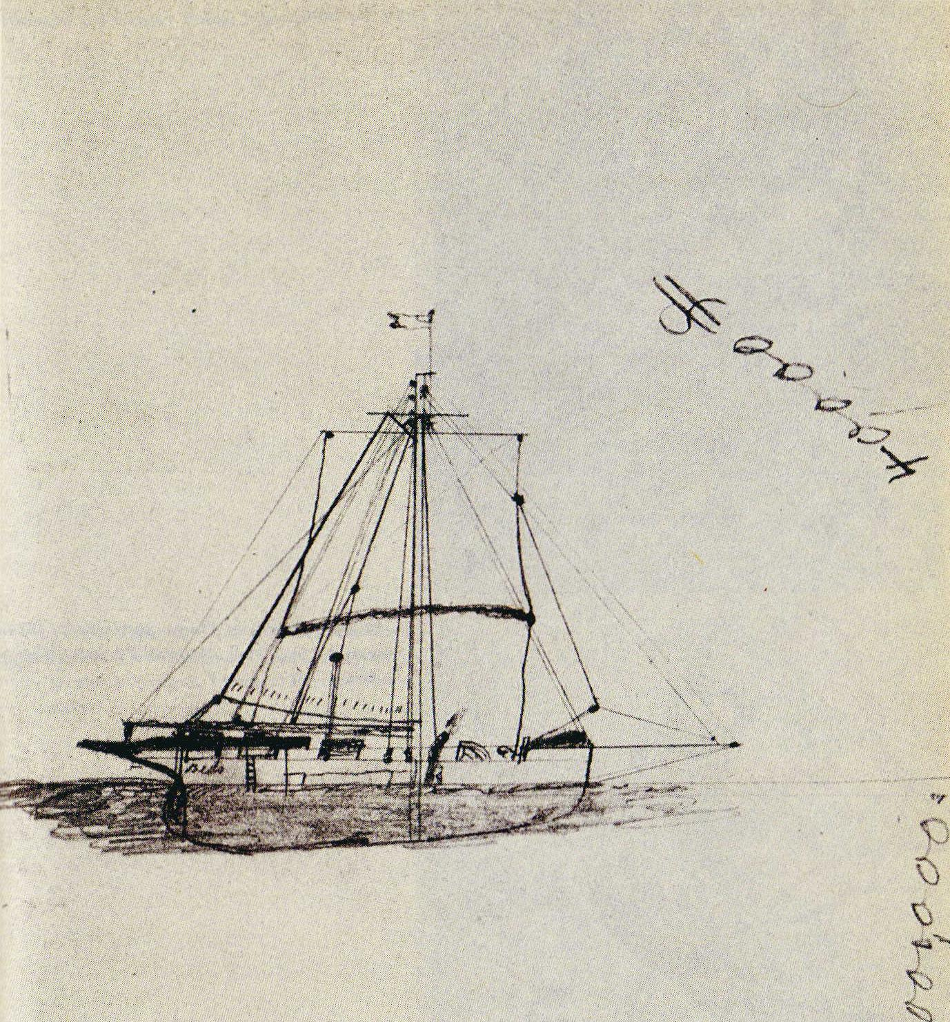 Sketch of English bark Mignonette by Tom Dudley (1853-1900)